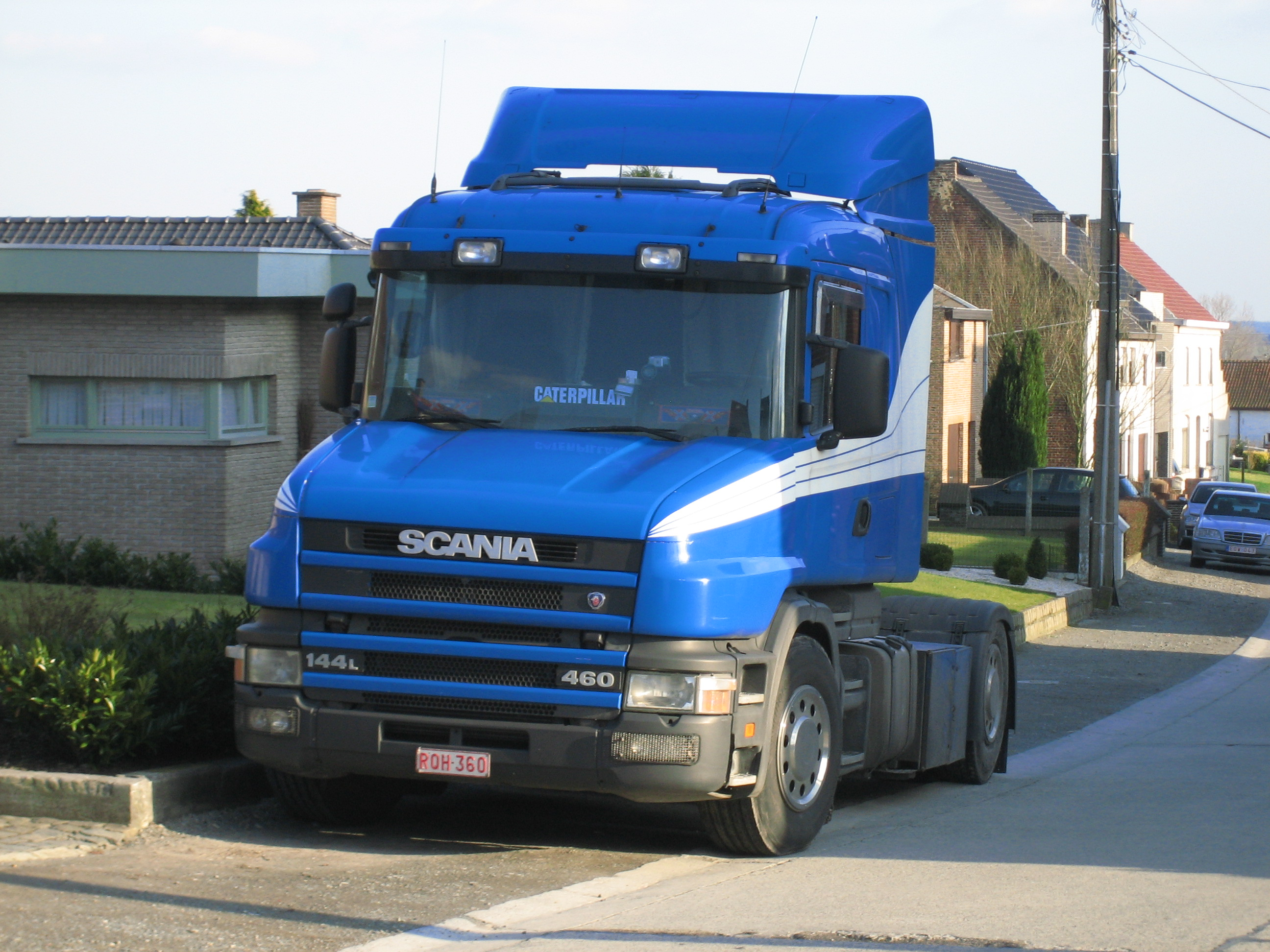 Scania 144L 460 in Sint-Martens-Lierde, Lierde, Arrondissement of Oudenaarde, East Flanders, Flanders, Belgium